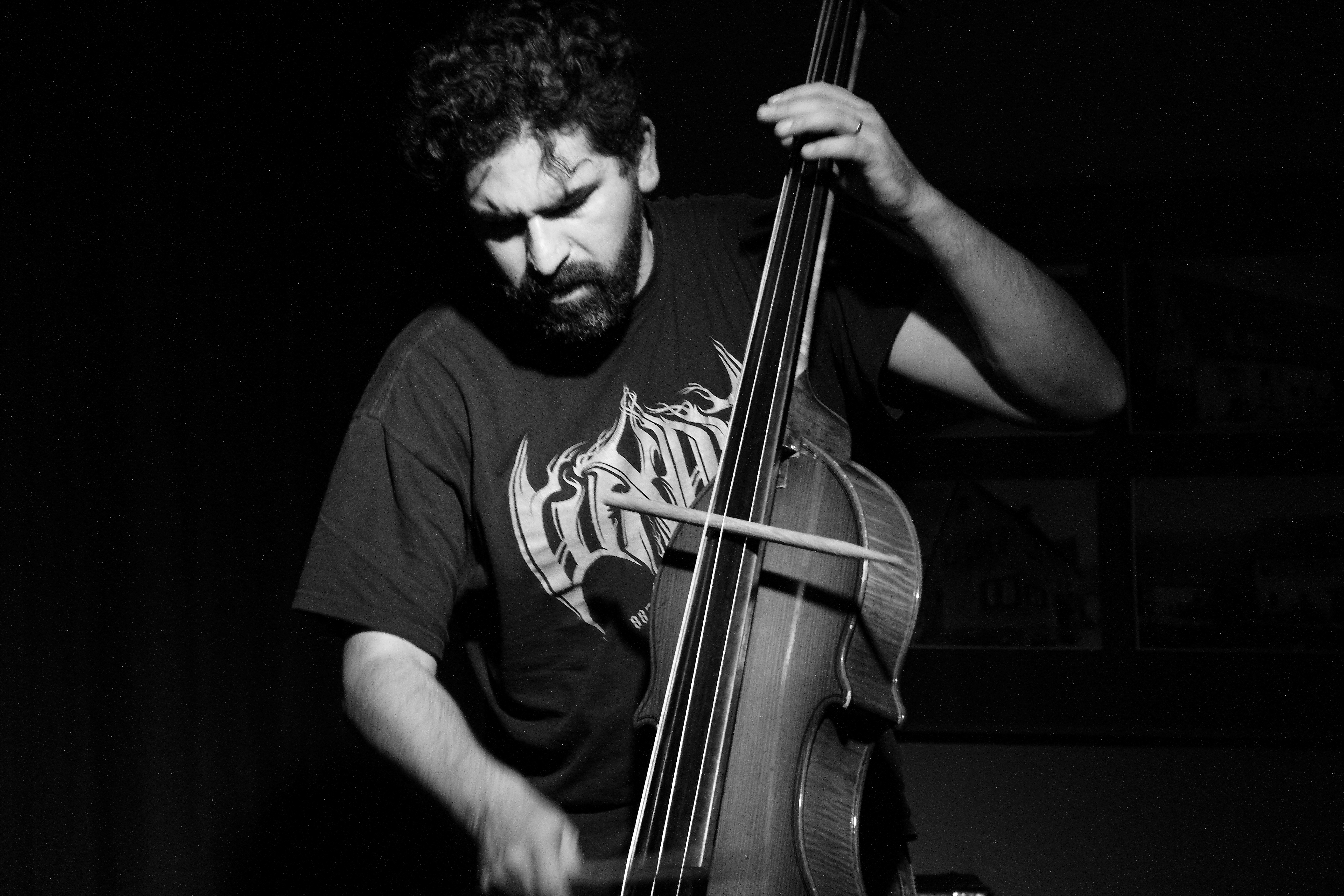 Tom Blancarte & The Gate at Club W71, Weikersheim.